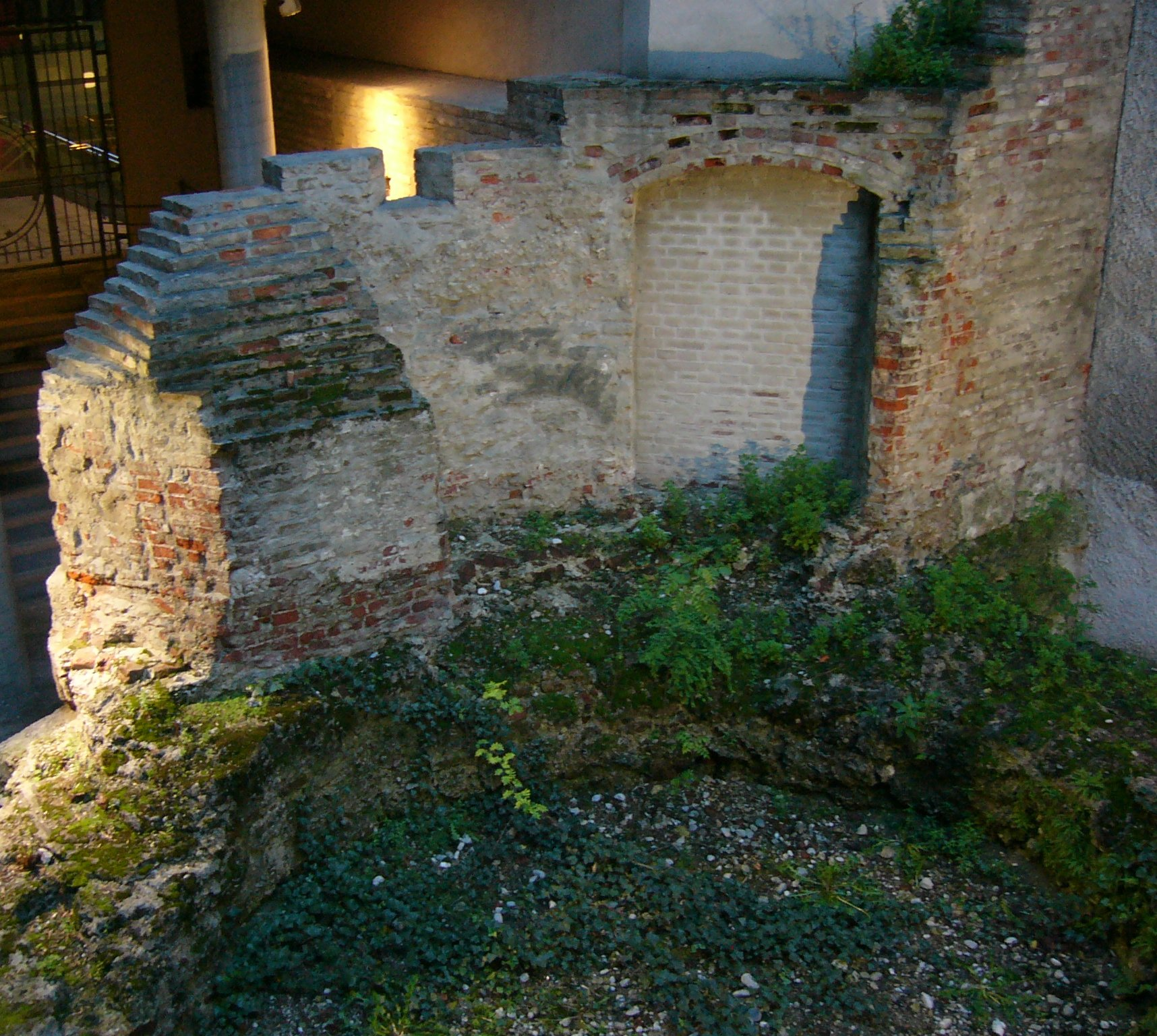 Prinzessturm ruins in Munich, Germany